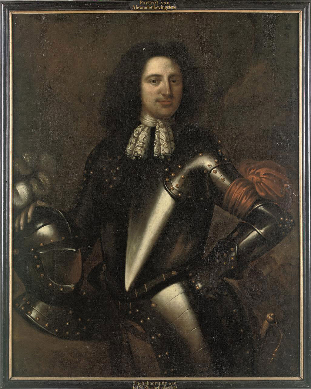 Portrait of Alexander Levingstone (British School)